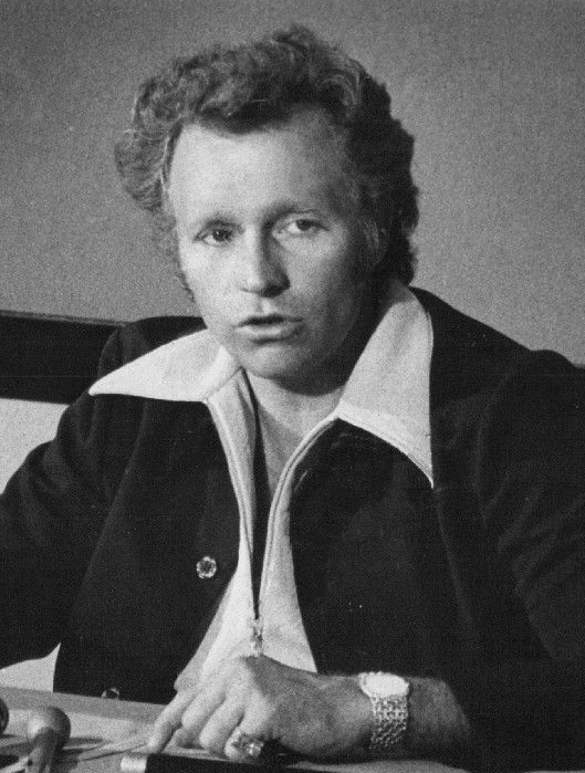 American Stunt Performer Robert Craig Evel Knievel Press Photo